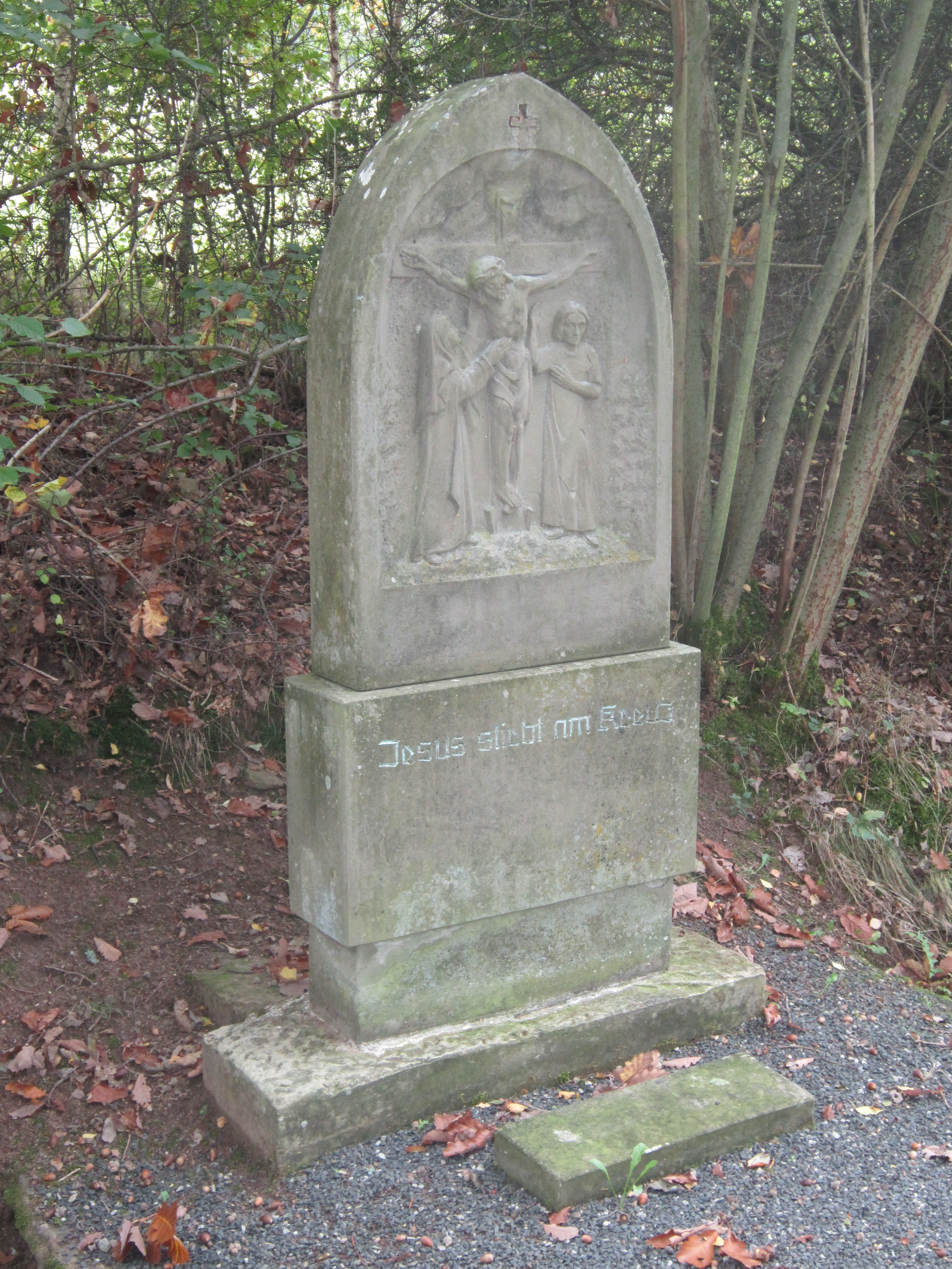 12th Station of the Cross at the Heimkehrerkapelle in Stangenroth, a quarter of the German town of Burkardroth in Lower Franconia (Bavaria).